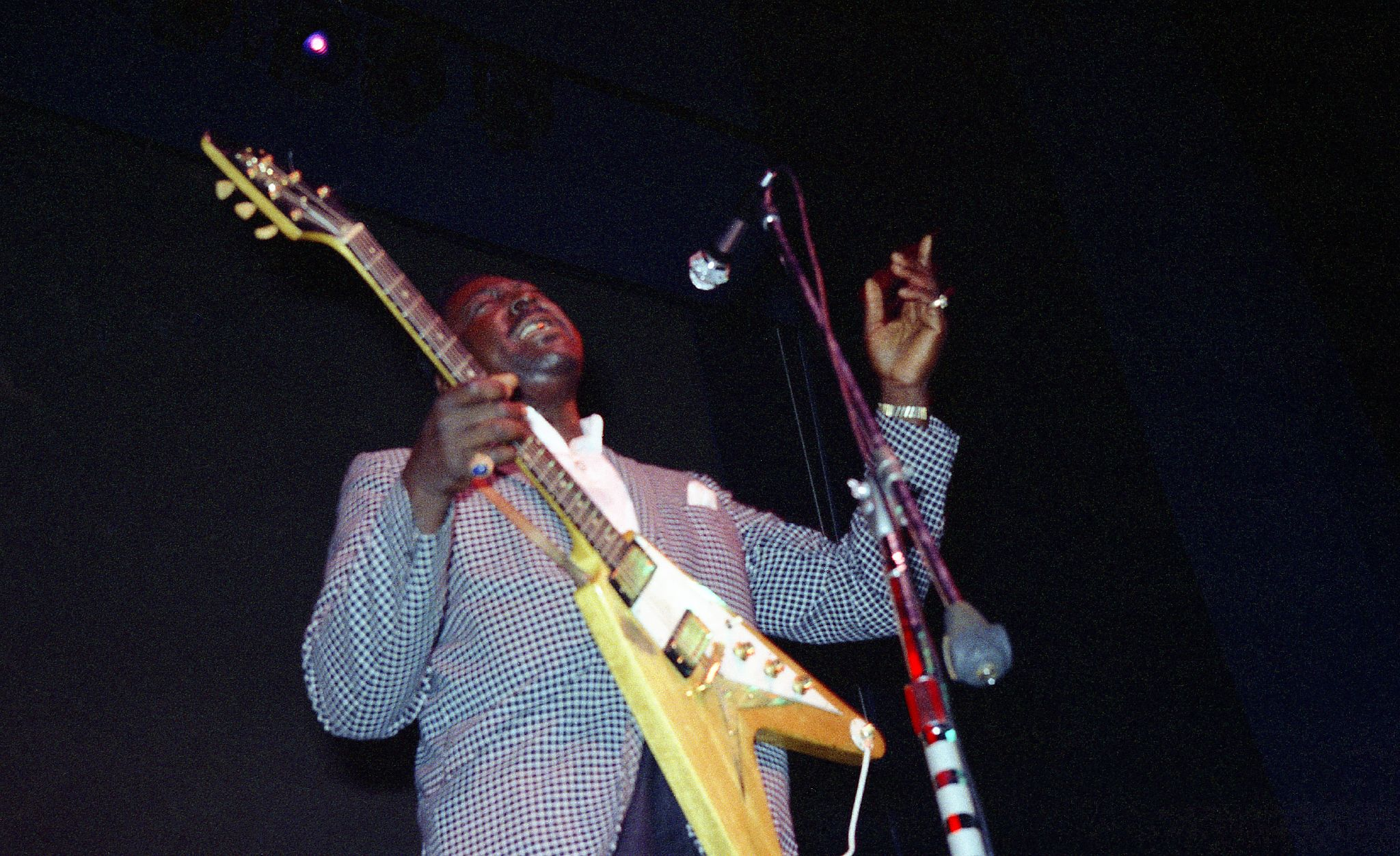 Albert King at the Fillmore East, October 19, 1968